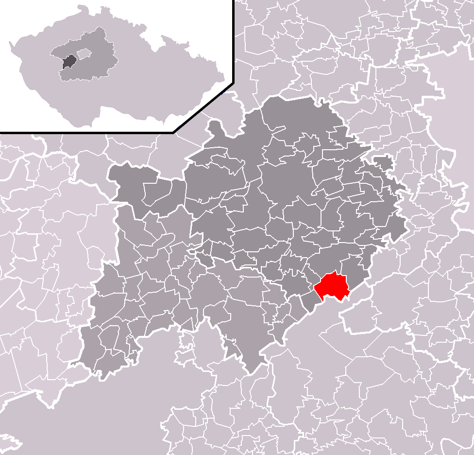 Location of Skuhrovmunicipality within Beroun District and administrative area of Beroun as a Municipality with Extended Competence.